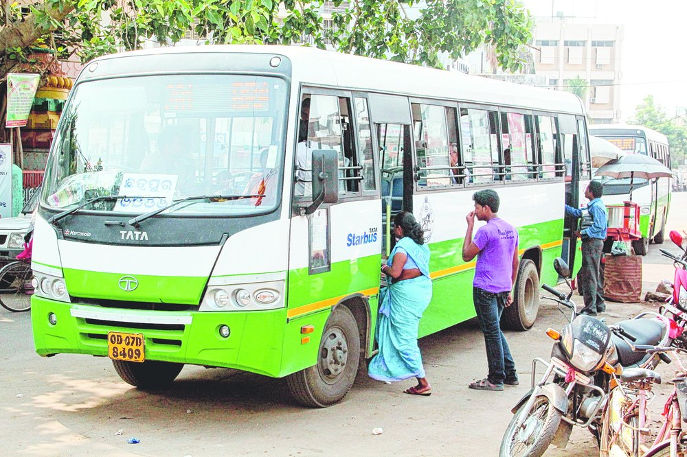 Rourkela Bus Service